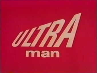 The Ultraman english title card created by Tsuburaya for foreign distribution.